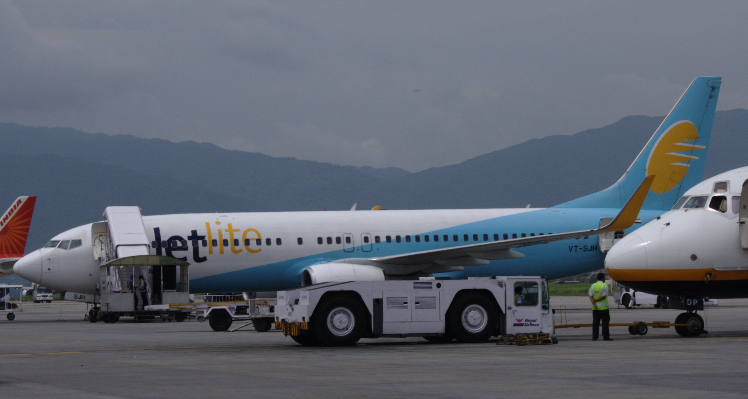 A Boeing 737-800 of the Indian Airline Jet Lite standing on the Airport of Kathmandu waiting for passengers to Delhi. Registration: VT-SJH